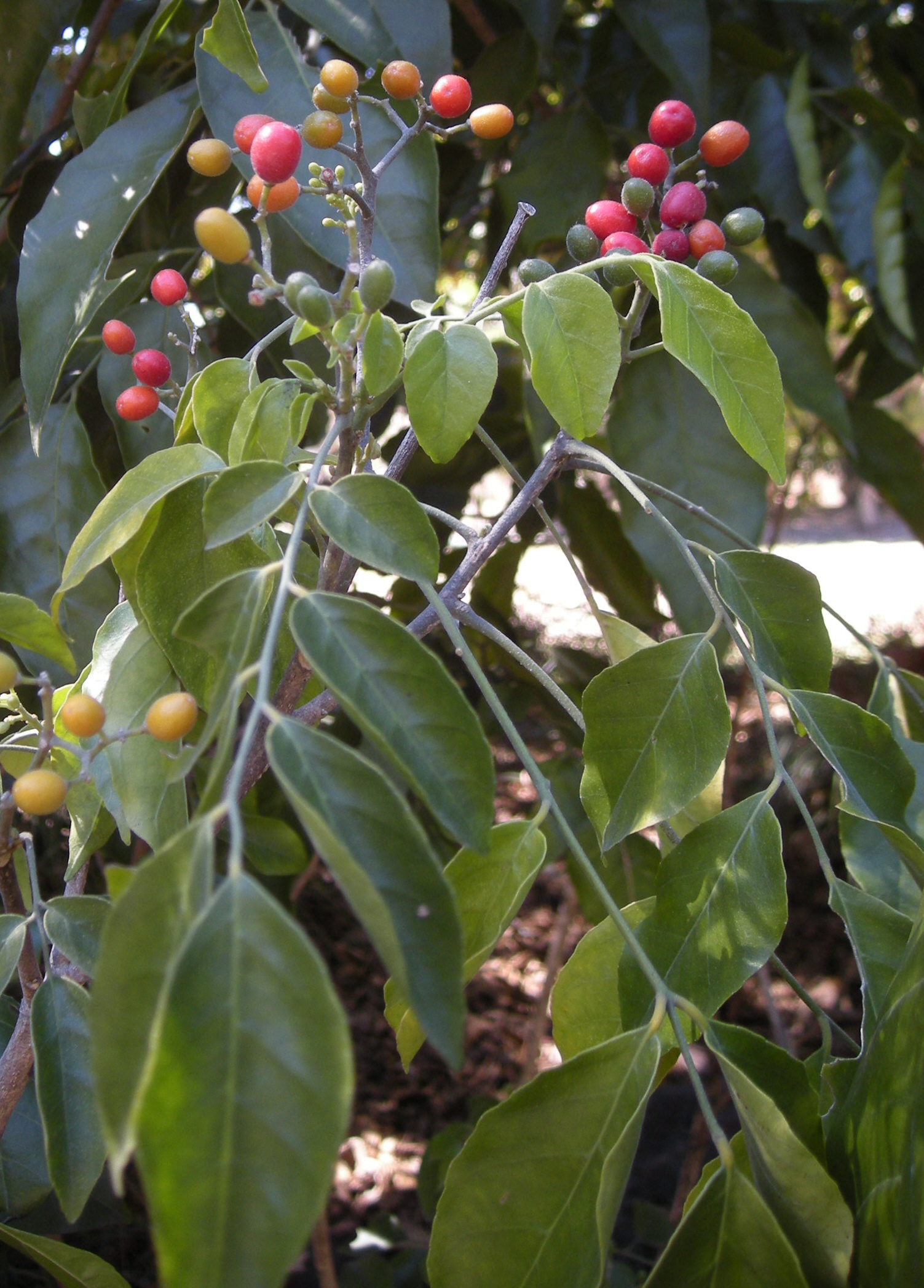 Micromelum minutum fruit and foliage. Mount Archer National Park. Rockhampton, Queensland.